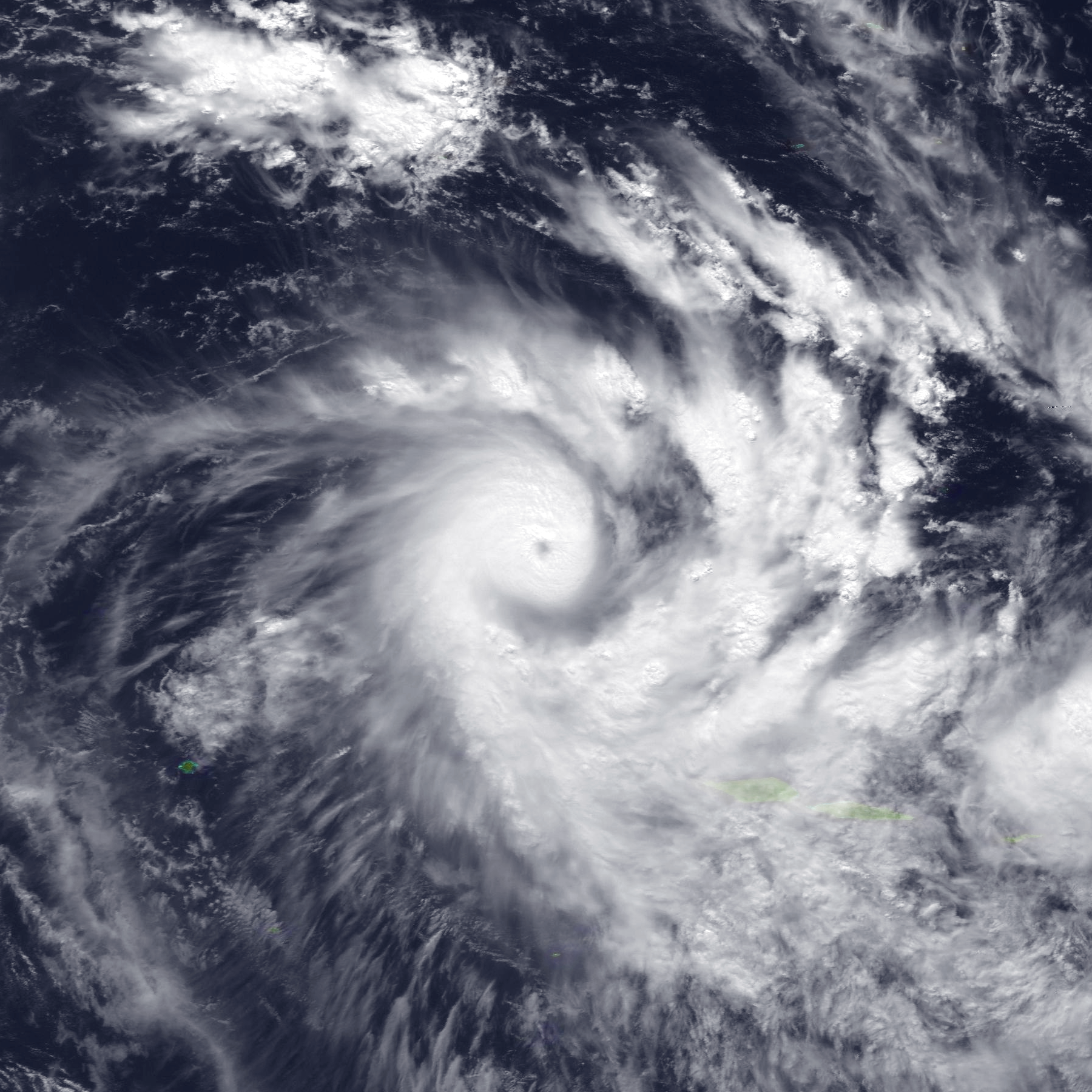 Severe Tropical Cyclone Keli at peak intensity north of Fiji on June 12, 1997